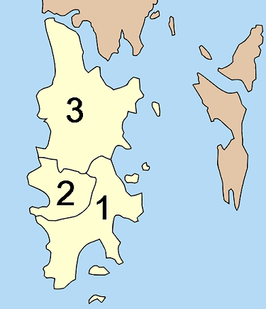 Map of Phuket showing the districts. Mueang Phuket Kathu Thalang